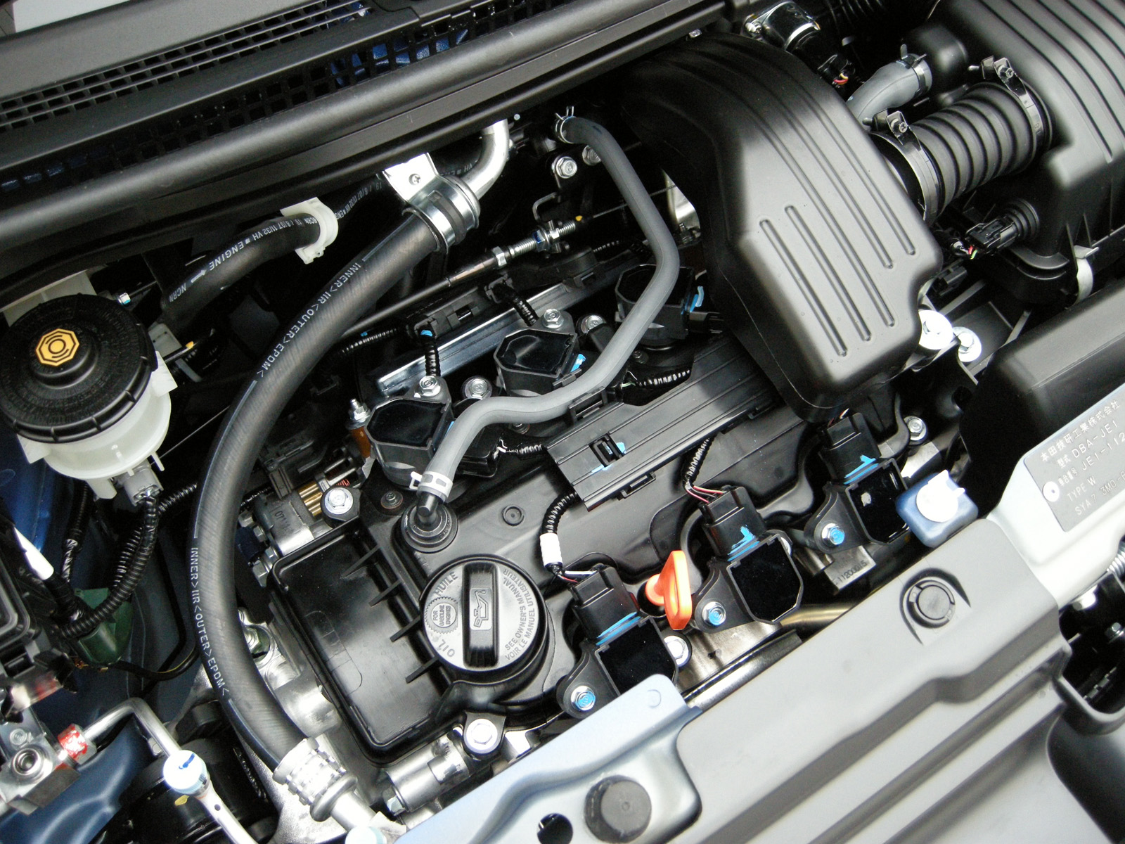 Honda P07A 660cc i-DSI NA Engine on 2007 Honda Life